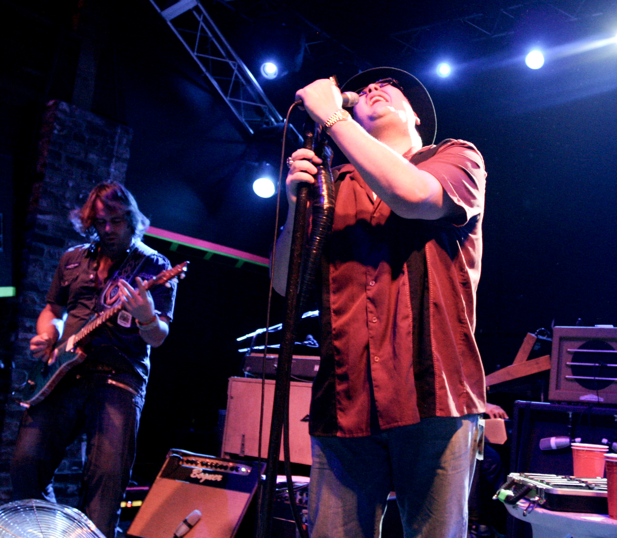 Blues Traveler, in concert, Jacksonville, Florida